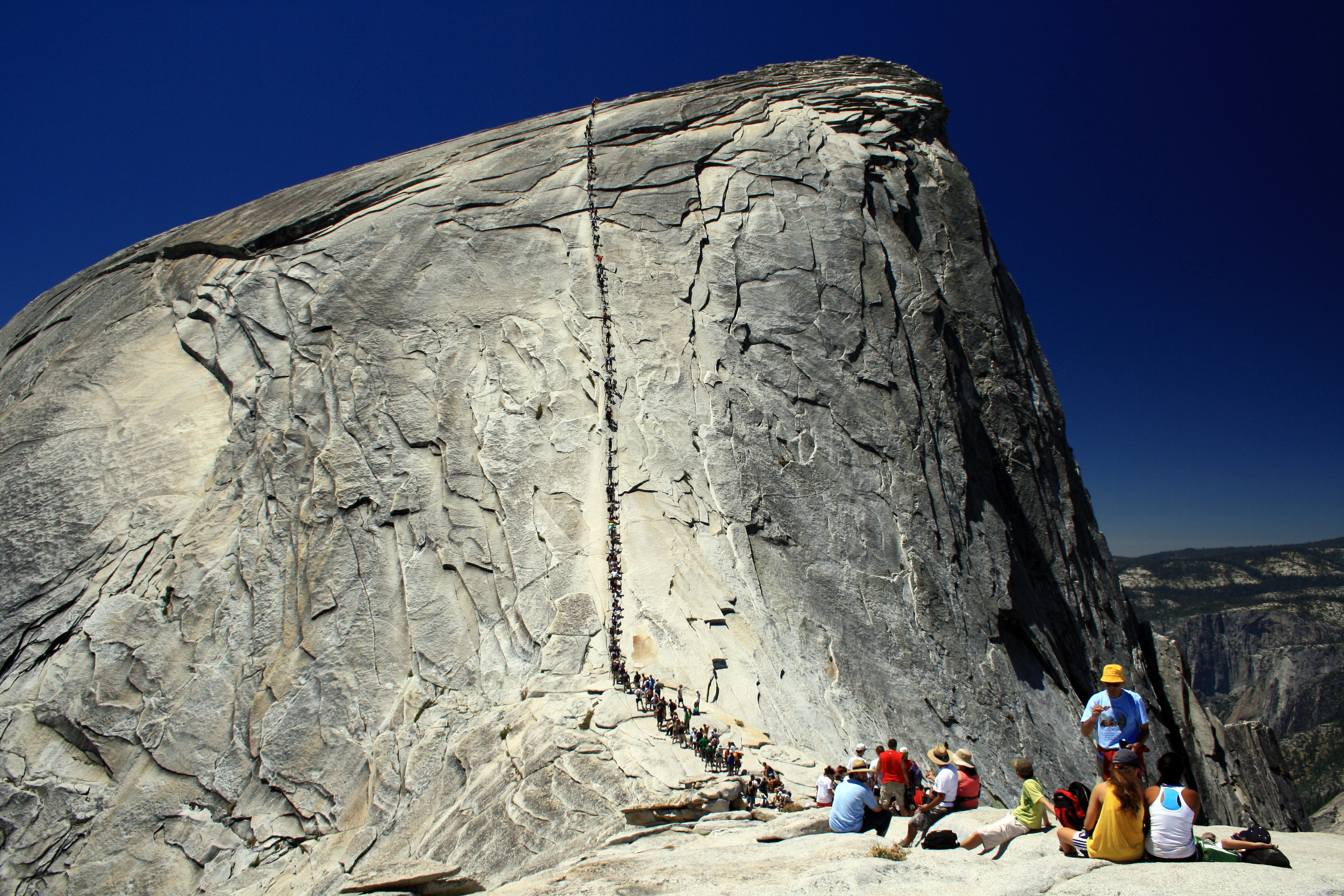 Half Dome, Yosemite National Park